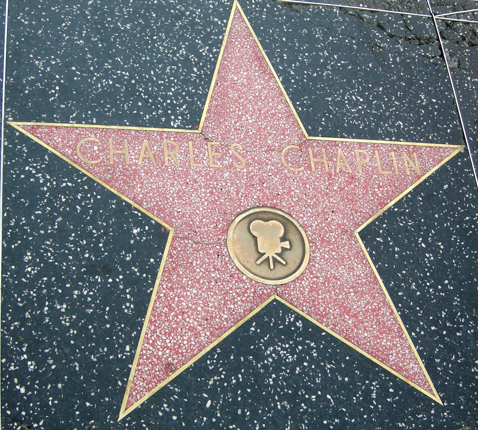 Charlie Chaplin's star on the Hollywood Walk of Fame